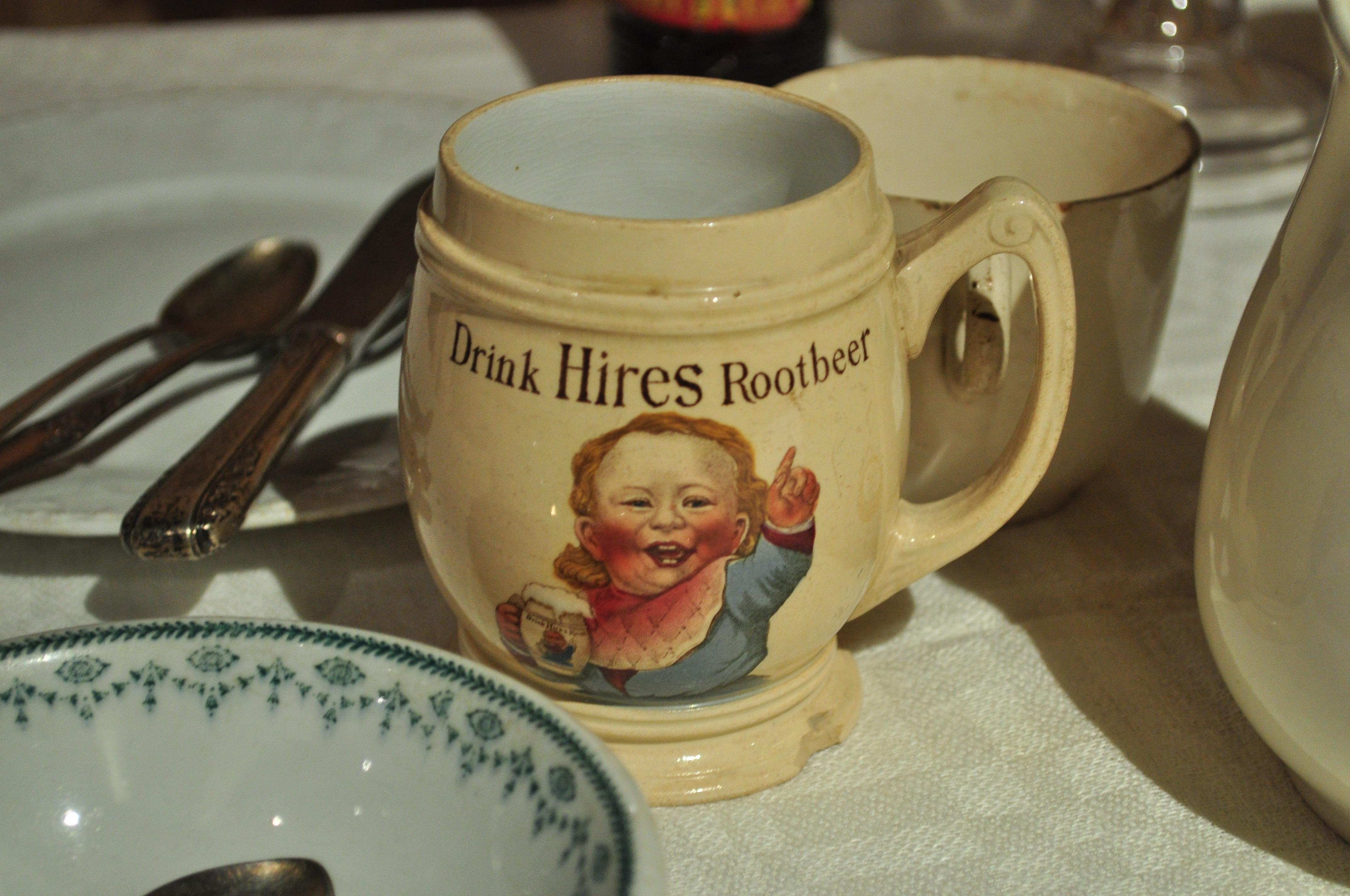 Hires Root Beer mug, 1930s or earlier. Photo taken at "Stills in the Hills", a 2012 exhibit about bootlegging during the Prohibition era in the United States, at White River Valley Museum, Auburn, Washington.